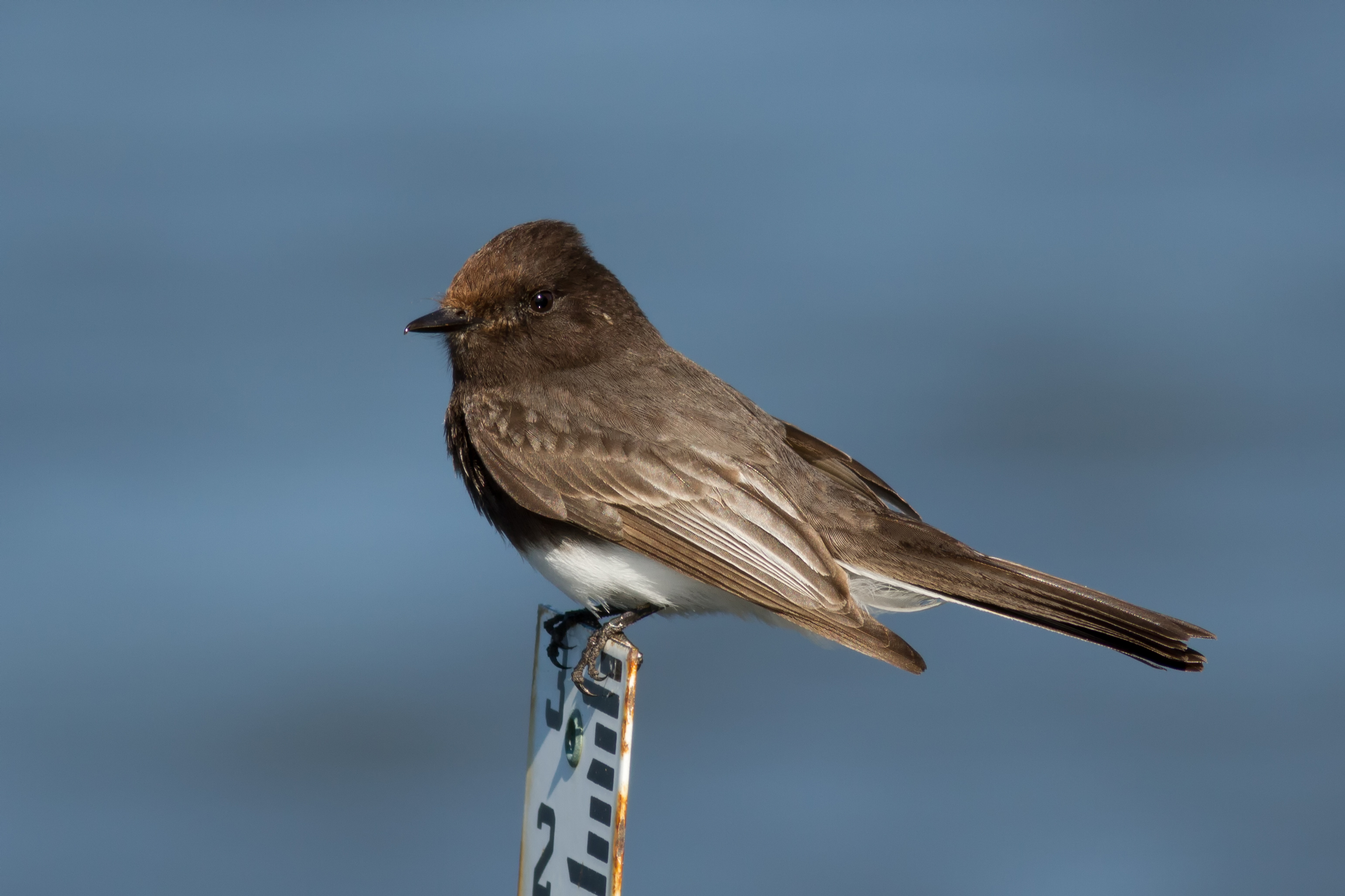 Black Phoebe (Sayornis nigricans) at Las Gallinas Wildlife Ponds near San Rafael, Marin County, California.